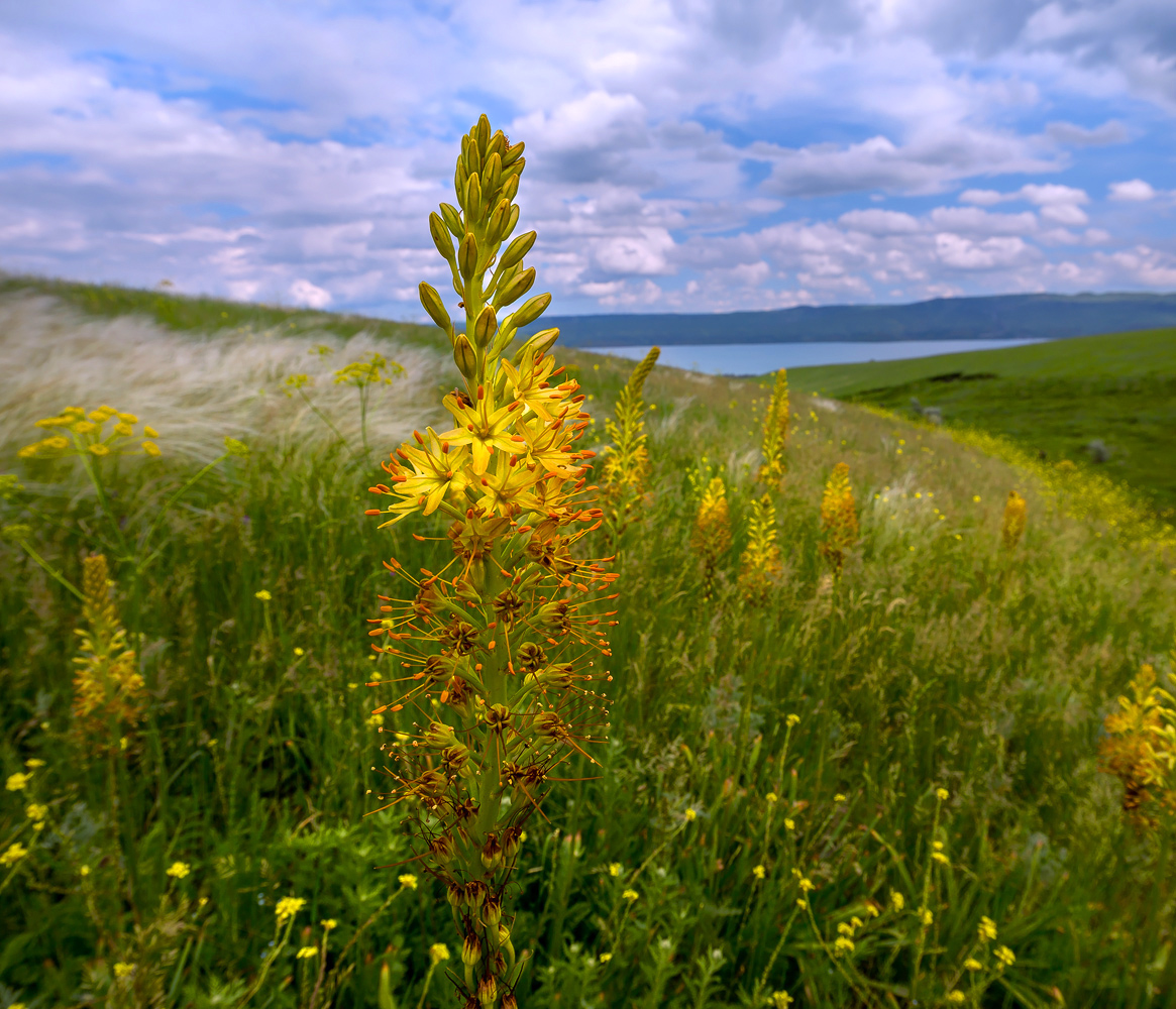 The second log is a natural monument. General view of the reserve. In the foreground blossoms evening. The second log is located in the western part of the Sengileevskaya depression, on the grounds of the Shpakovo district. The length of the girder is 3.9 km, the width is up to 200 m. It is a site of the relict virgin grassy grass-grass steppe with fescue, tonkonom, Lessing feather grass, firewood roofing. One of two places on the Stavropol Upland, where the eremurus grows remarkable, listed in the Red Book of the Russian Federation. The beam is protected as a refugium, where the gene pool of endemic, rare and endangered plants of the Stavropol steppe is preserved.